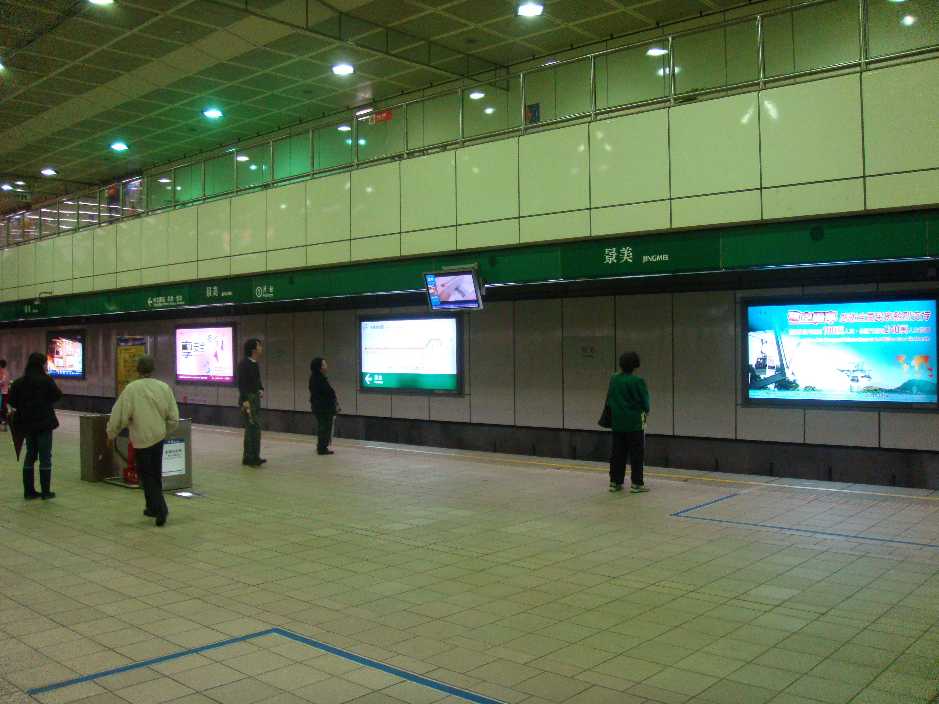 Platform 1, Taipei MRT Jingmei Station.中文（台灣）: 臺北捷運景美站第一月台。